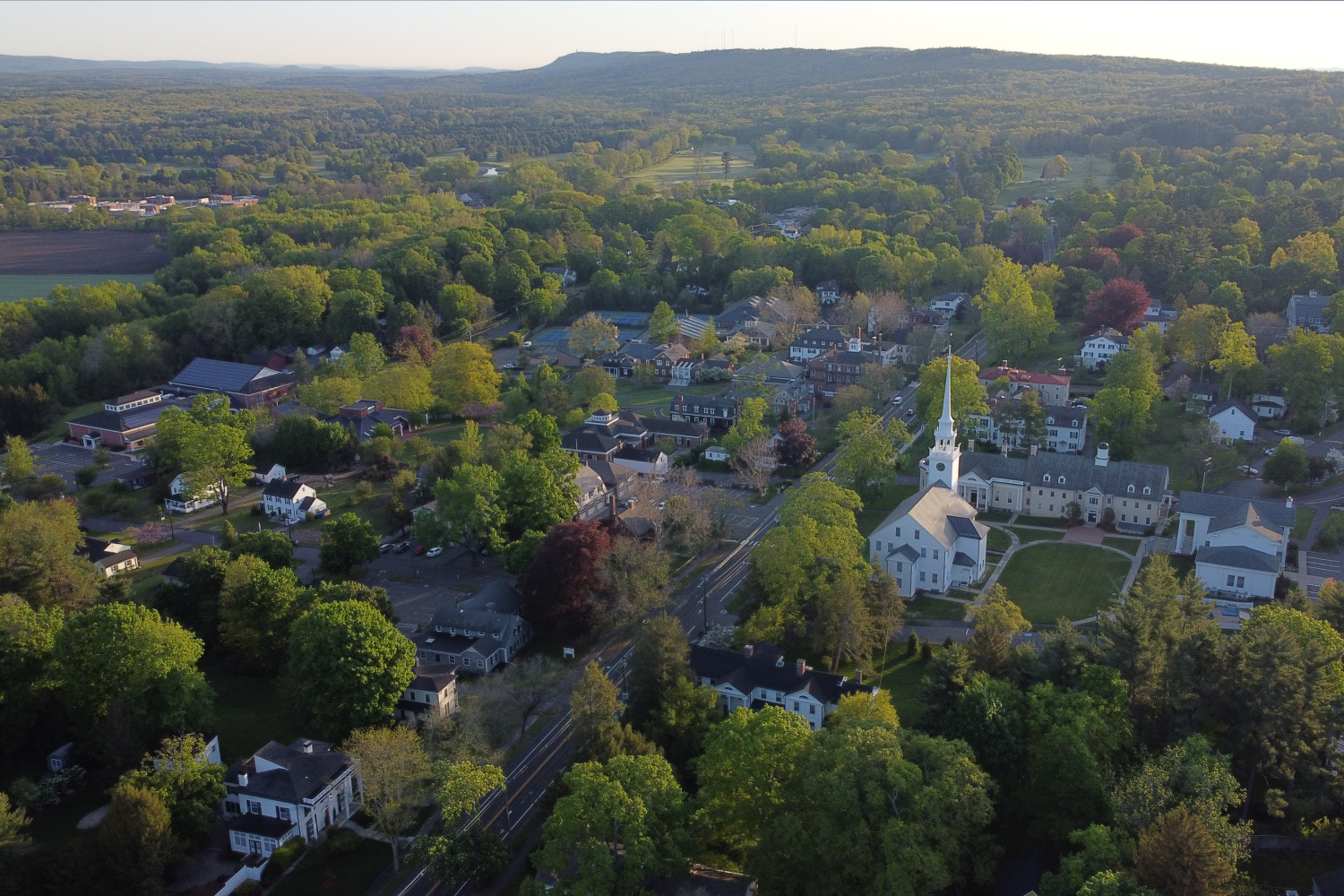 A drone photo of downtown Farmington, CT by drone